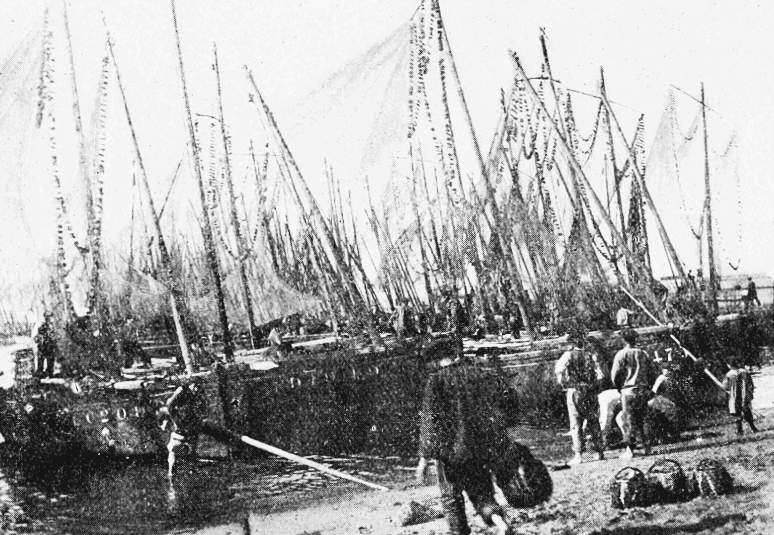 Concarneau fishing fleet discharging catch of the day